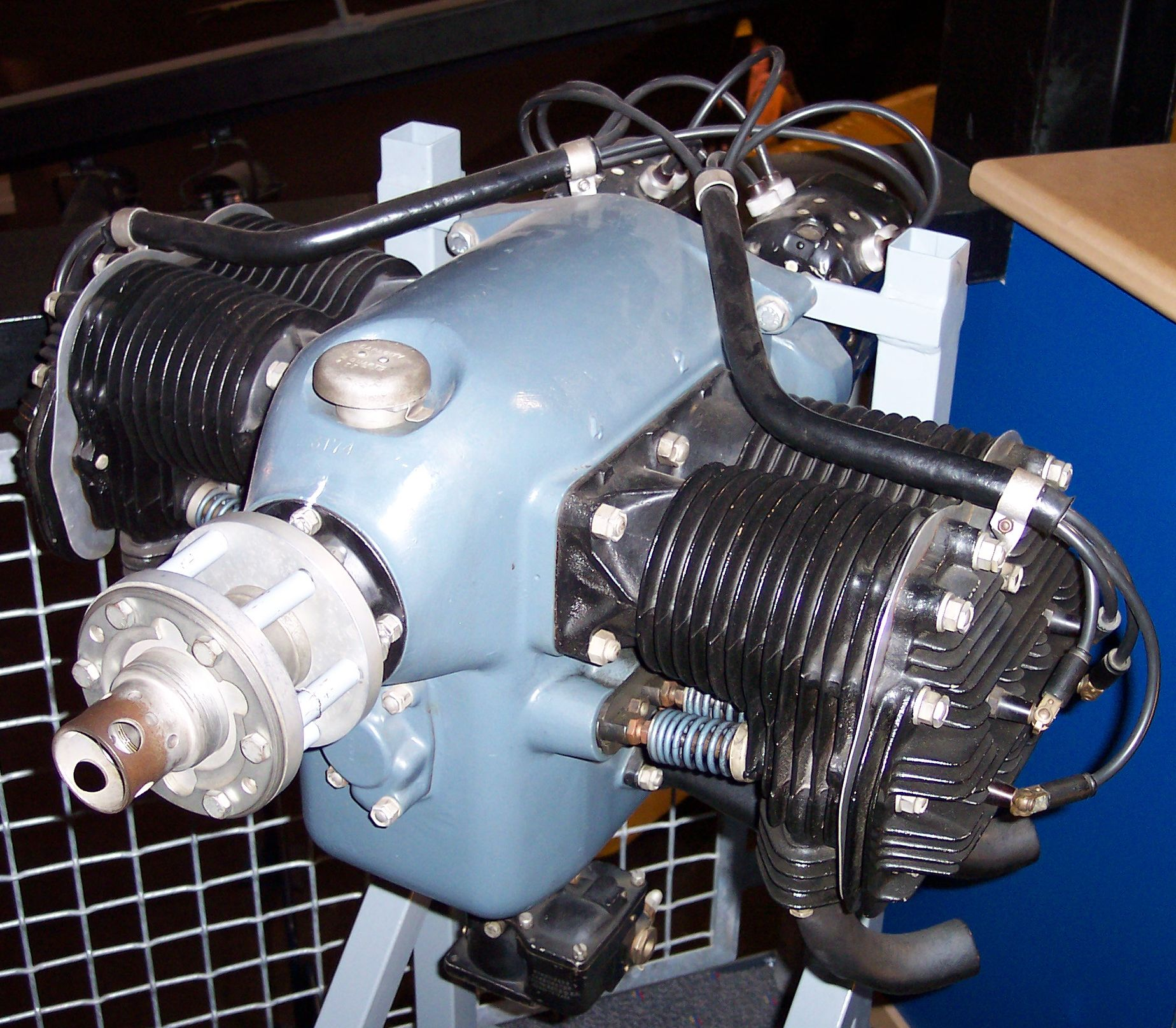 Continental A40-5 aircraft engine, a 40 horsepower (30 kW) air-cooled horizontally-opposed four-cylinder piston engine with dual ignition magnetos, at Aviodrome museum, Lelystad Airport, the Netherlands.